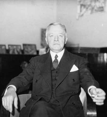 French politician André Morizet (1876-1941).